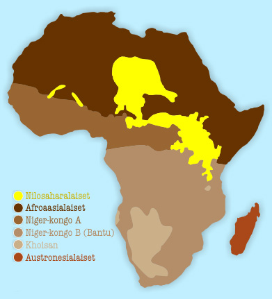 Map showing the distribution of Nilo-Saharan languages with Finnish texts.